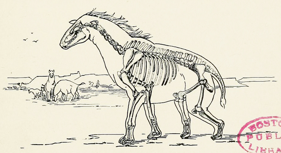 First complete skeletal restoration of Moropus.